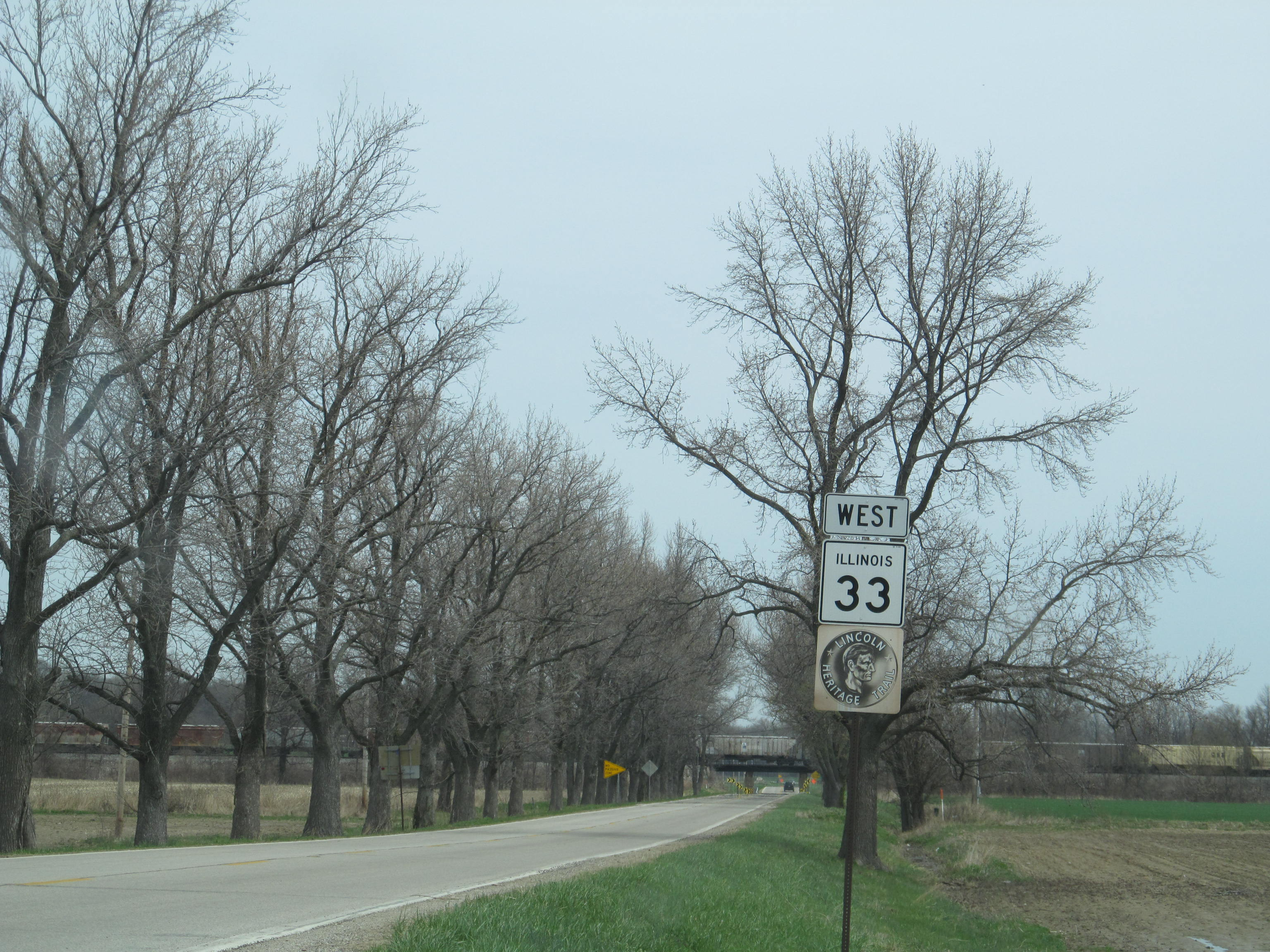 Illinois Route 33 westbound signed with Lincoln Heritage Trail